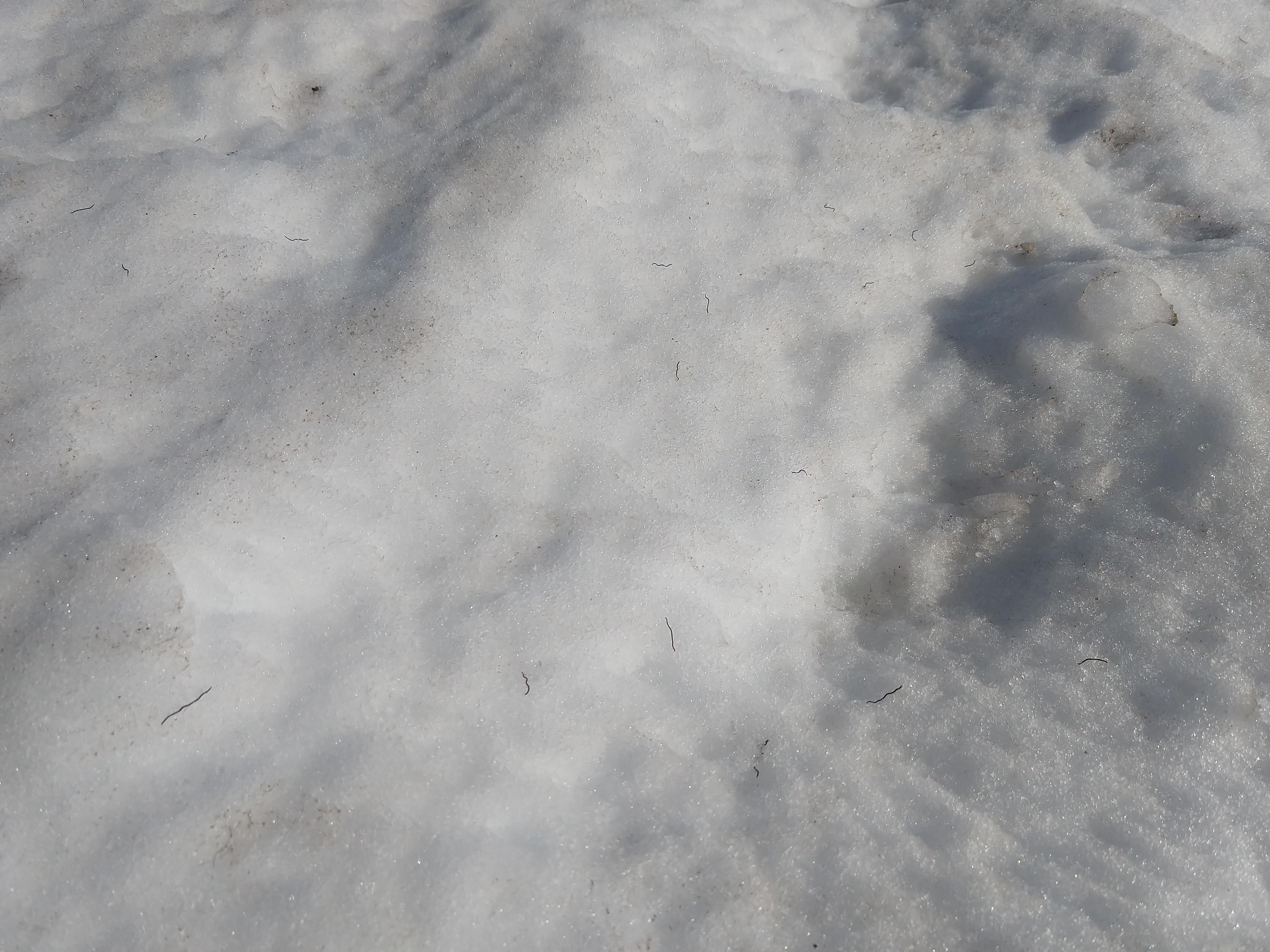 North American glacier ice worms (mesenchytraeus solifugus) on Nisqually Glacier on Mount Rainier, emerging later in the day once the glacier is out of direct sunlight.